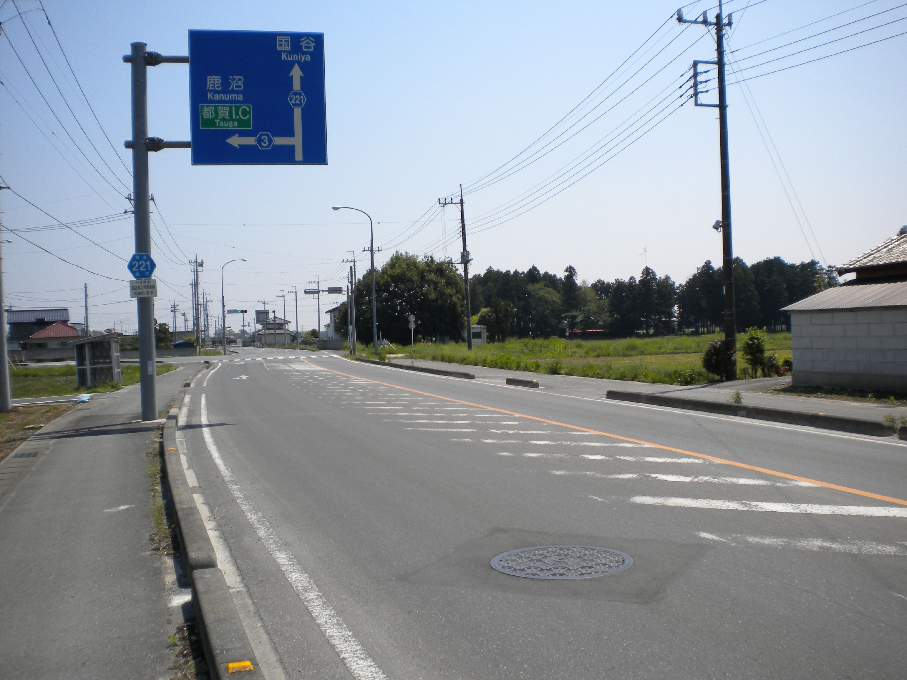 Tochigi prefectural road No.221 on Tsuga town